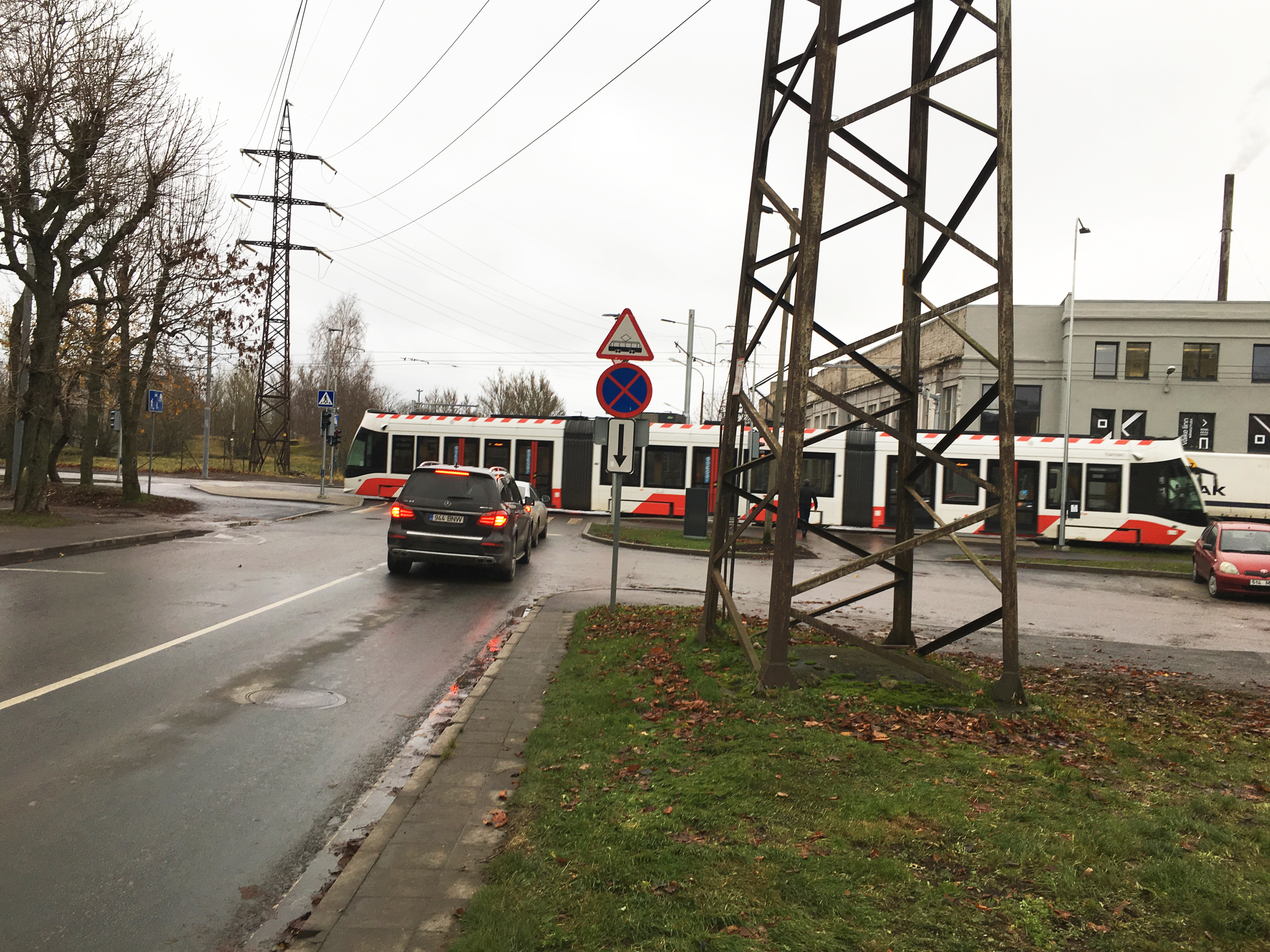 Erika, Kopli and Ristiku Street crossing, Tallinn, Estonia